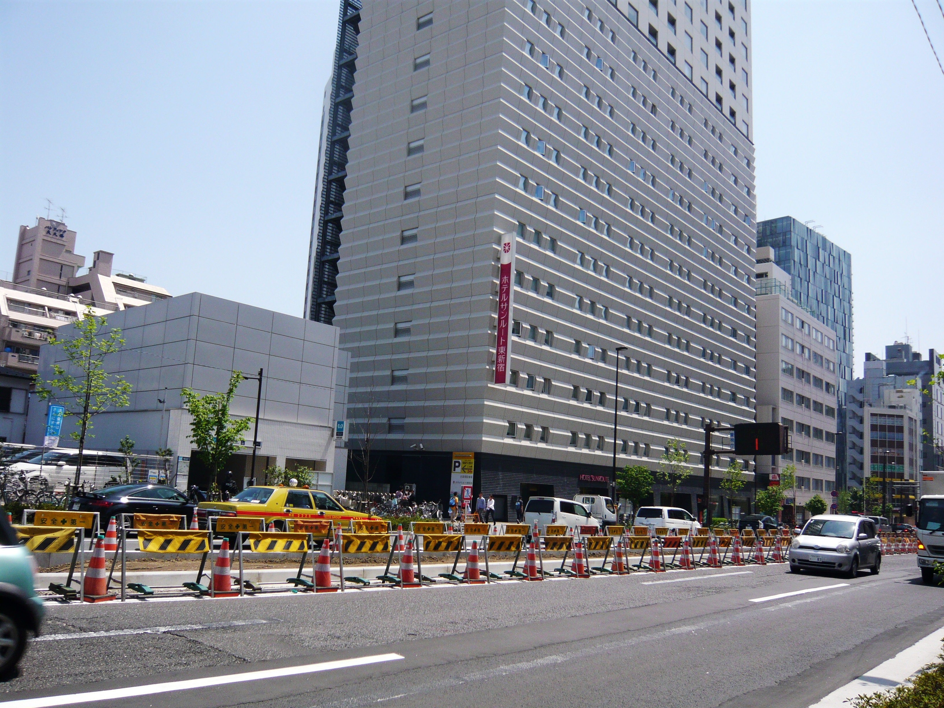 B2 Exit of Higashi Shinjyuku Station Date: 04.29.2012